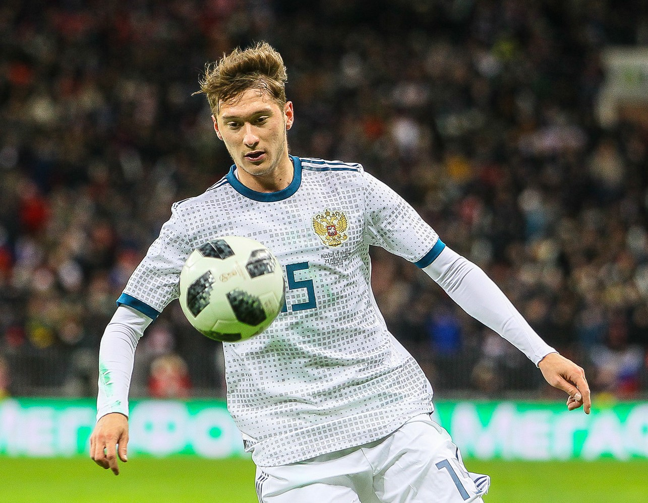 Aleksei Miranchuk